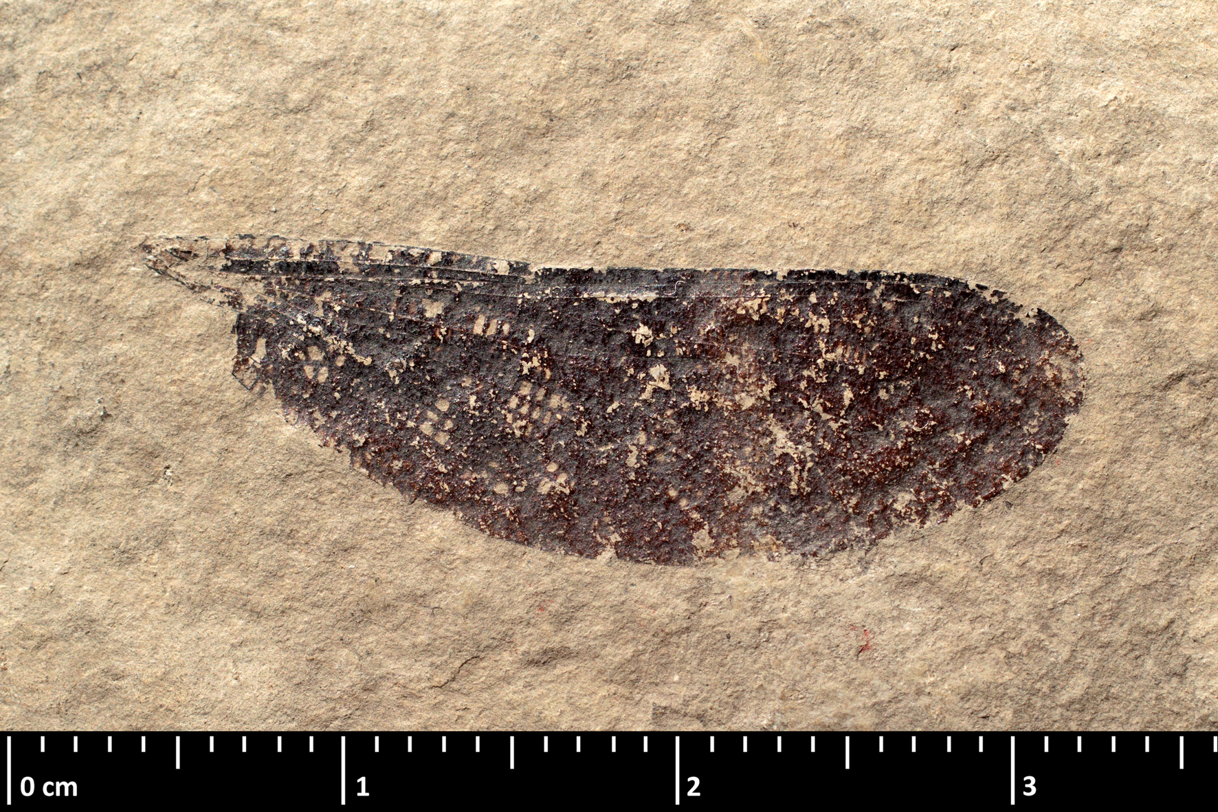 The Sapho armissani holotype part specimen with direct lighting. Stampian, Oligocene; Armissan quarry, Narbonne Basin, Aude, Languedoc-Roussillon, France Muséum national d'Histoire naturelle specimen MNHN.F.B47290